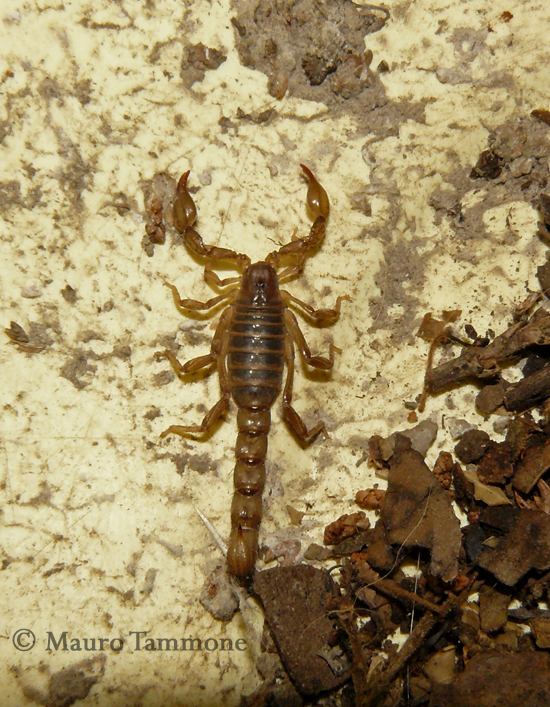 Bothriurus patagonicus in Río Negro, Argentina